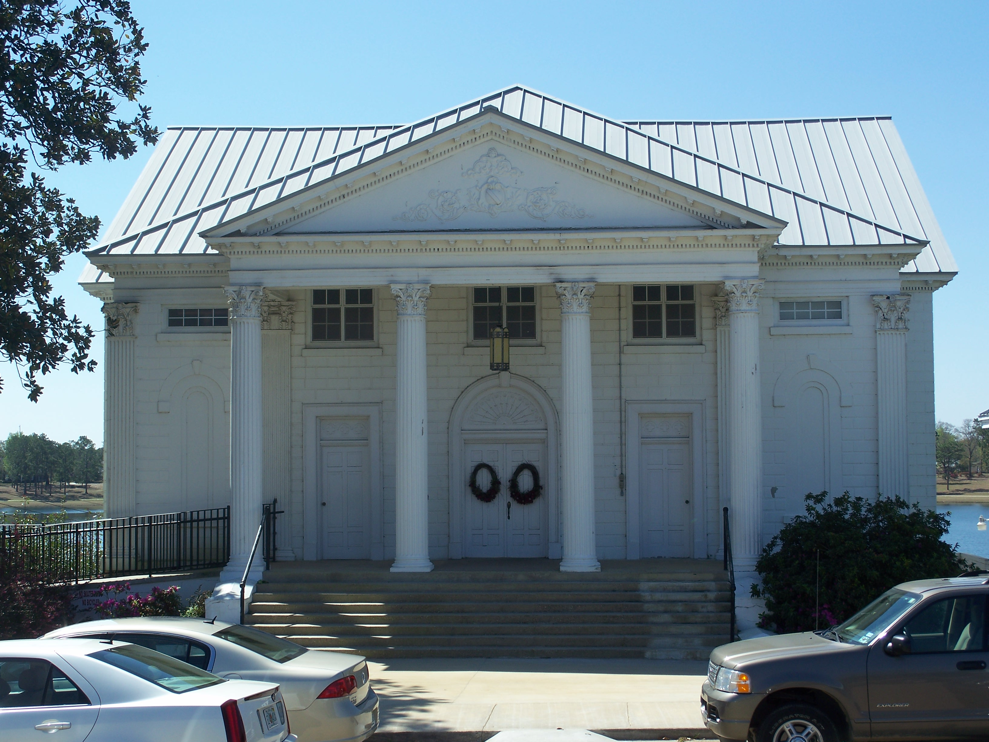 DeFuniak Springs, Florida: DeFuniak Springs Historic District: First Presbyterian Church, completed in 1923. It's one of the few buildings on the lake side of Circle Drive.